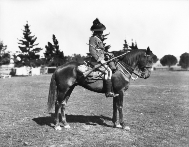 A trooper of the Camden Troop of the New South Wales Mounted Rifles, c. 1900